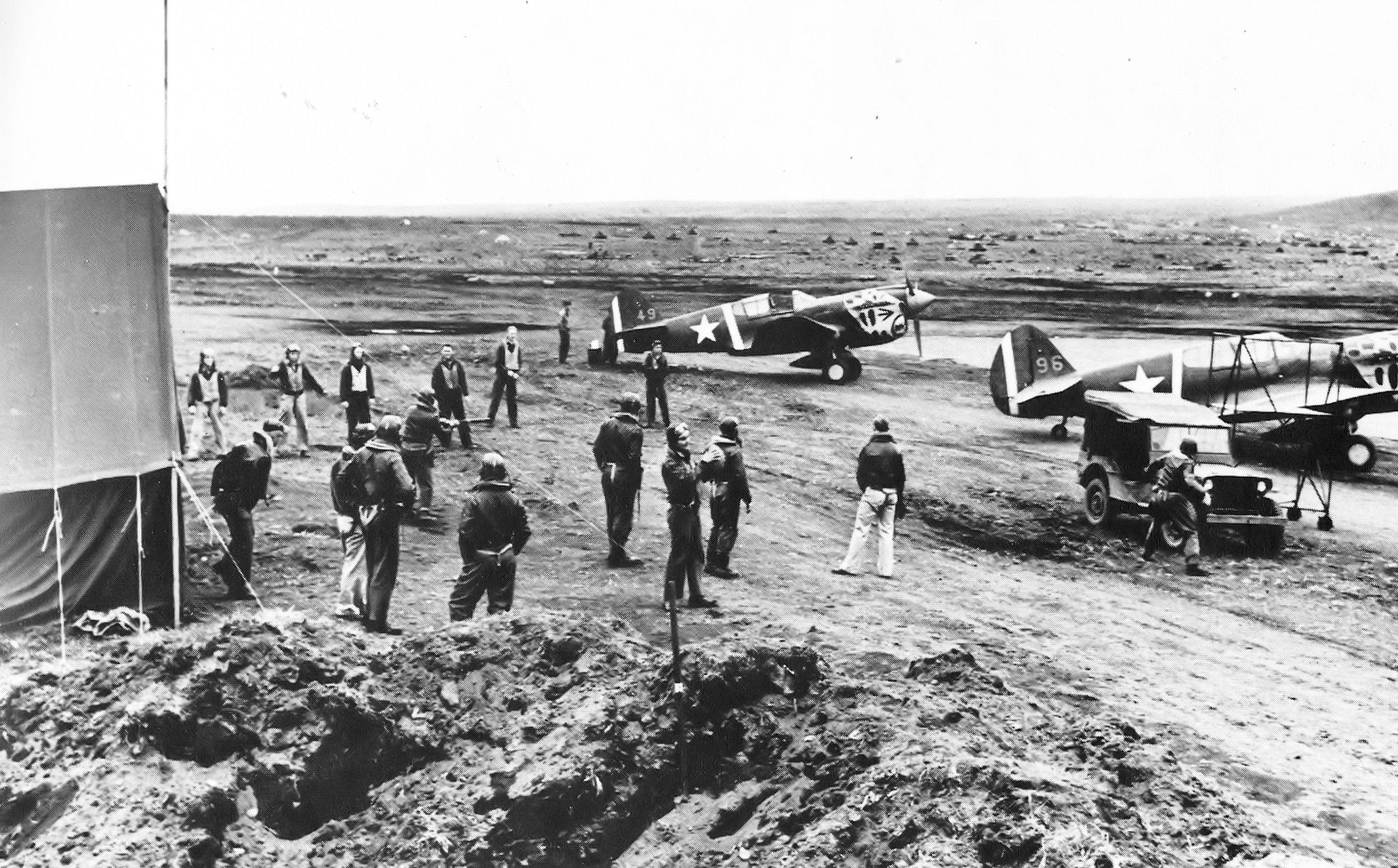 11th Fighter Squadron P-40 Warhawks at Fort Glenn Army Air Base, Alaska, June 1942